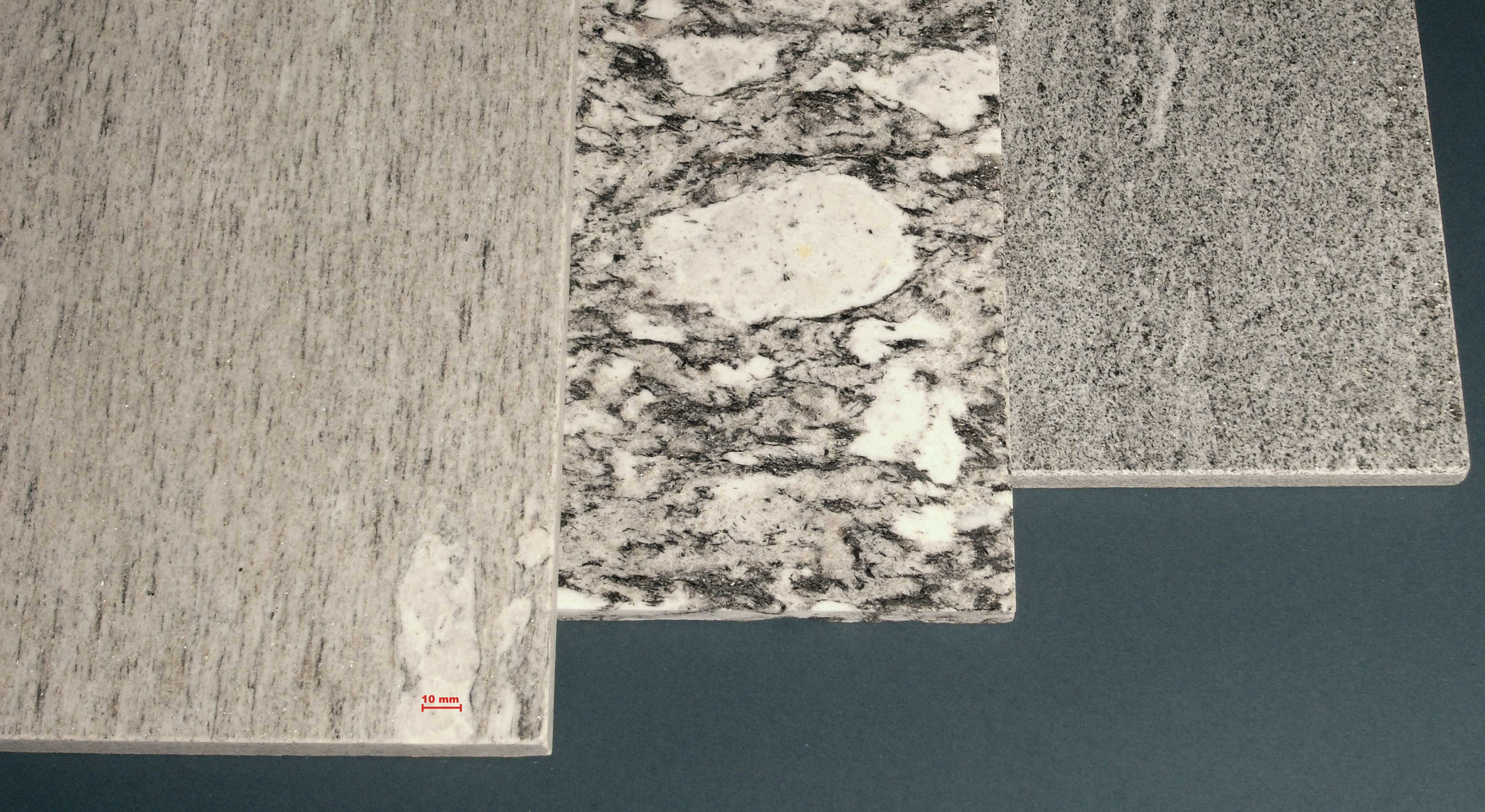 gneiss samples (dimension stone, polished) origin: region Ticino and Domodossola